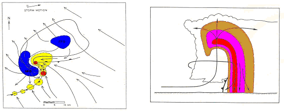 Supercell thunderstorm horizontal and vertical structure.